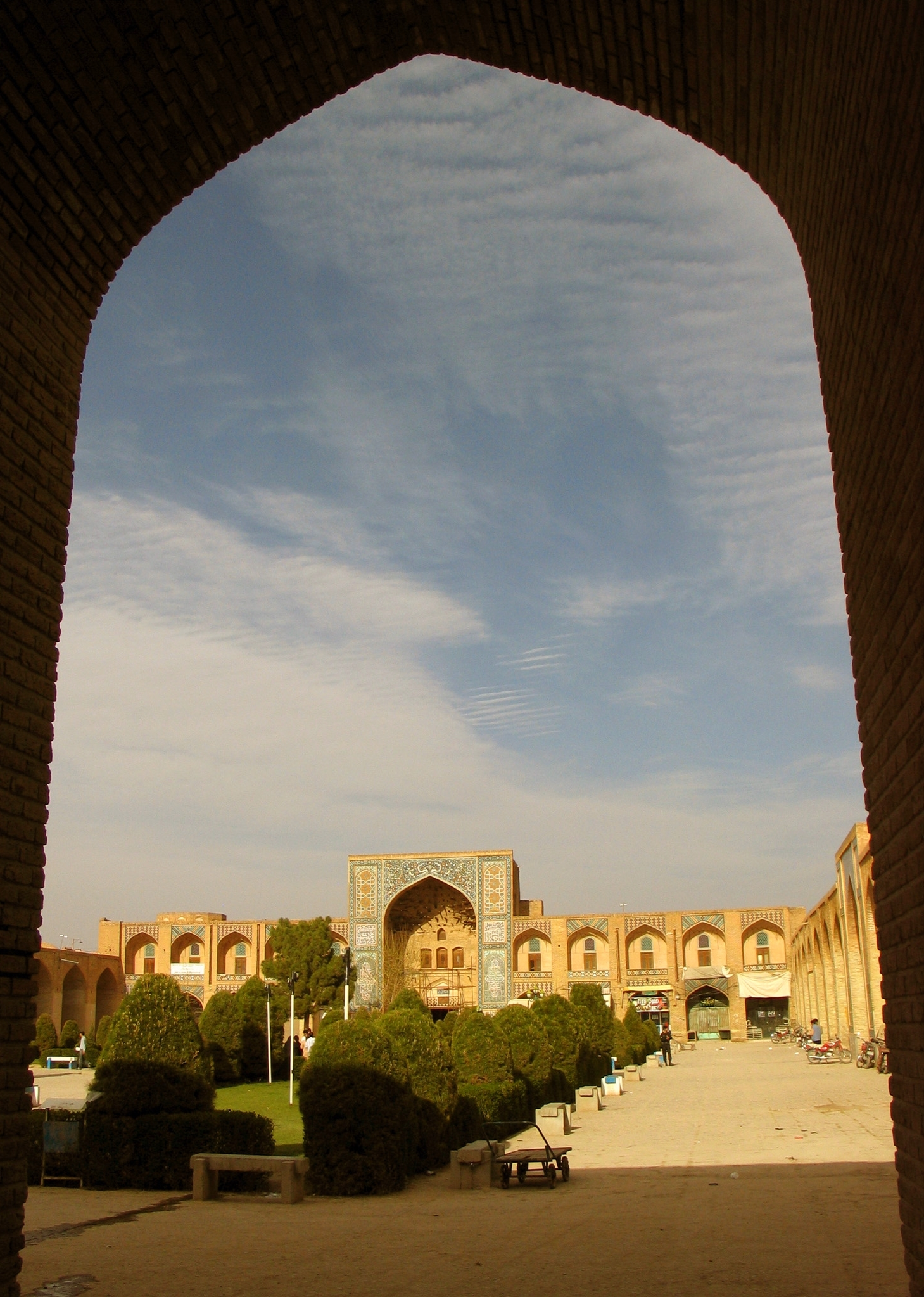 View of Ganjali Square, courtyard of the Ganjali Khan Complex, Kerman, Iran.